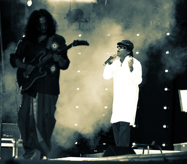 AR Rahman performing at the Concert in Sydney (2010).